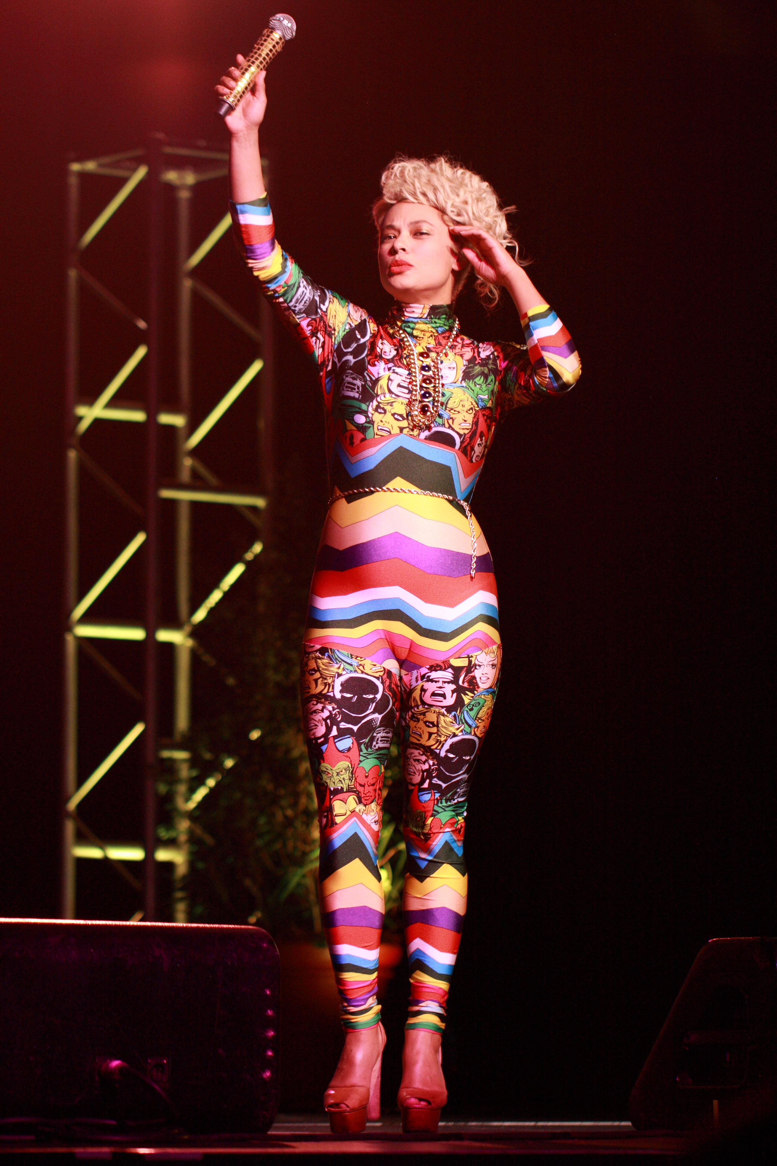 Australian Paralympian of the Year 2012 ceremony at the Hordern Pavilion, Sydney, Australia.